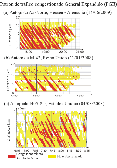 ASDA/FOTO Pattern